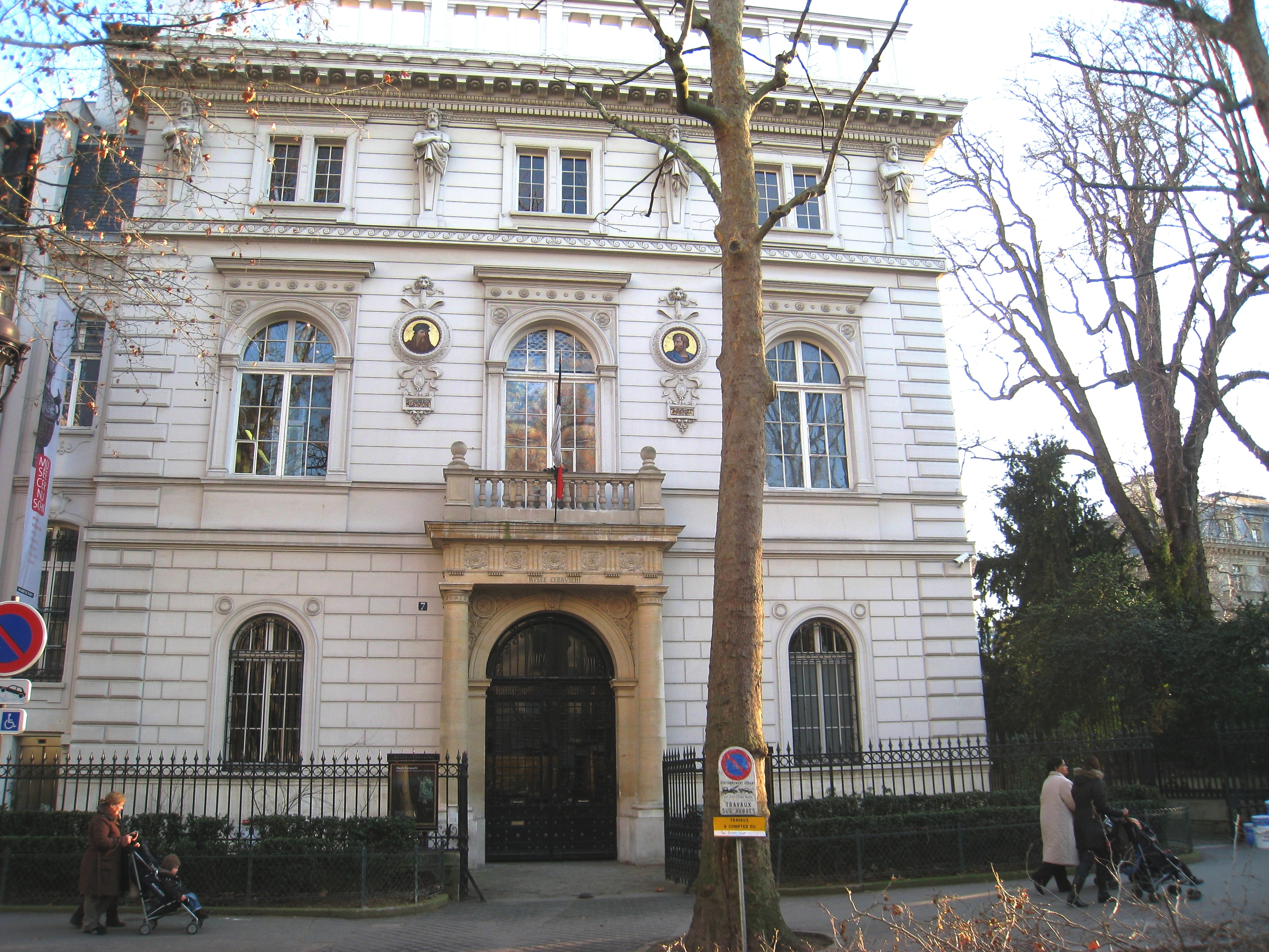 Musée Cernuschi, Paris, France - exterior facade. The original work is old enough so that copyright (if any) has long since expired. The museum imposed no restrictions on photography (except prohibiting flash) in writing and when I explicitly asked; thus the original image appears free of copyright restrictions.